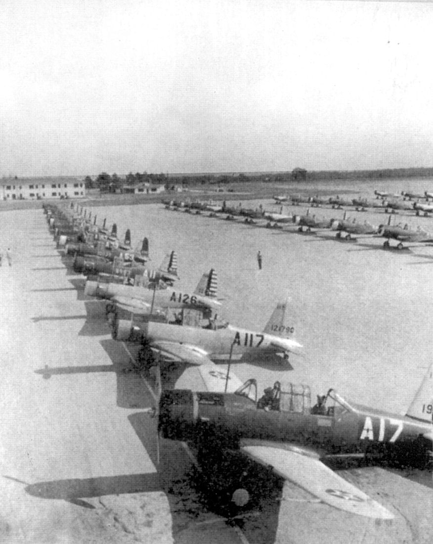 Daniel Field (now Augusta Regional Airport) Georgia, BT-13/15s , 1943